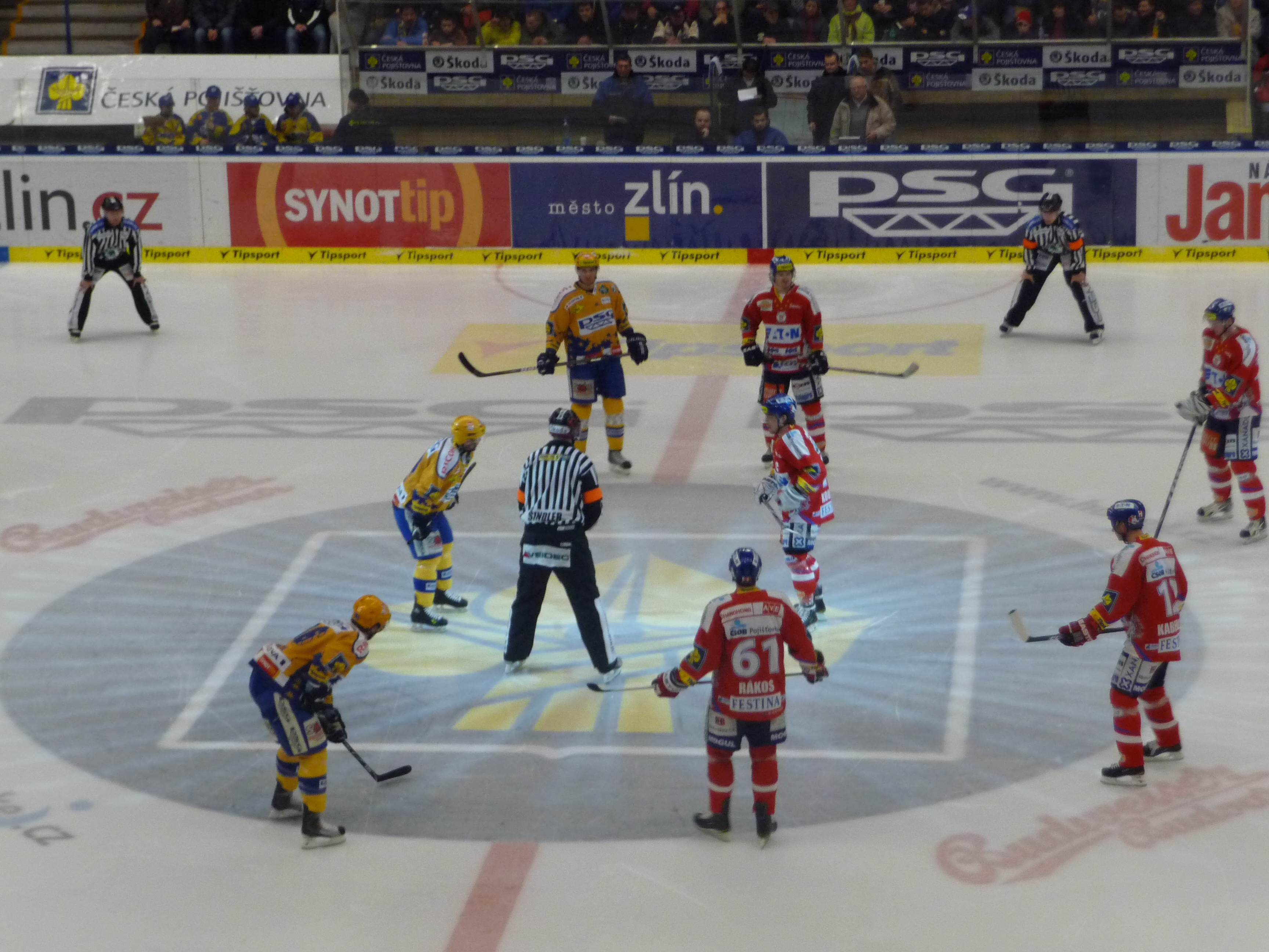 PSG Zlín v HC Eaton Pardubice, first face-off -10 -5 -3 -2 ◄ ► +2 +3 +5 +10